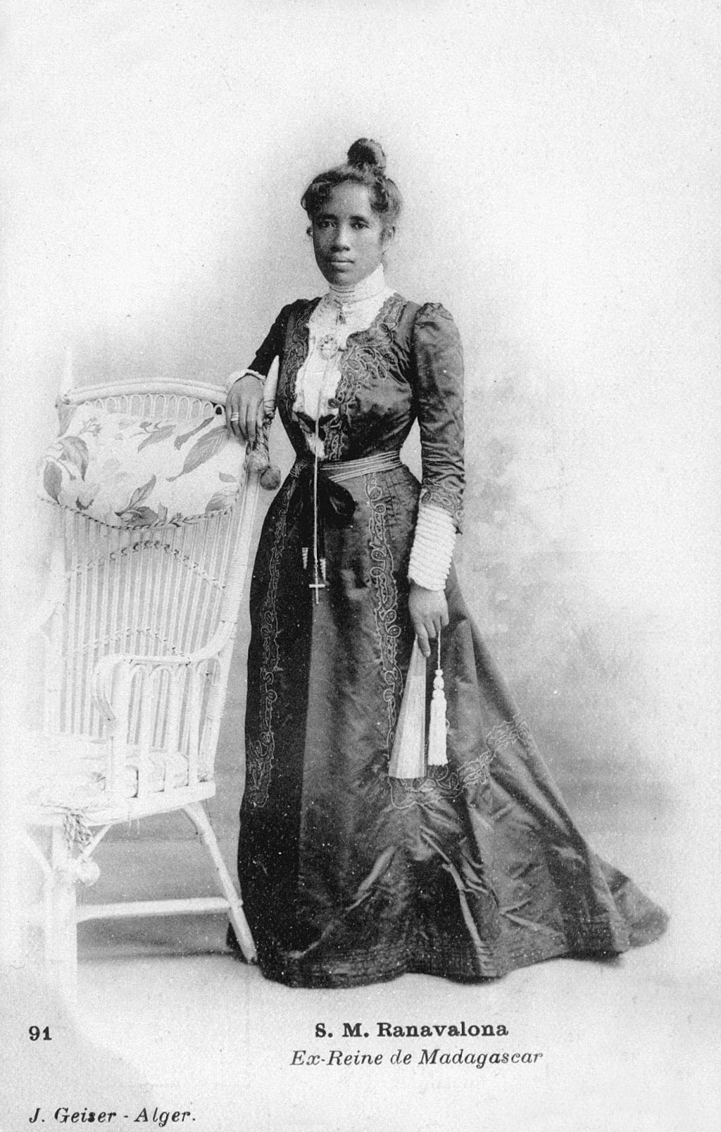 Portrait of Ranavalona III, in Algeria, taken by J. Geiser.